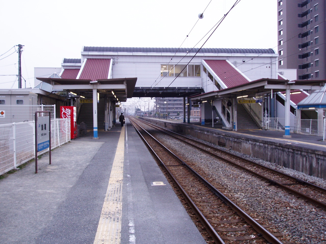 West Japan Railway Uno Line（Seto-Ohashi Line） Senoo Station Platform